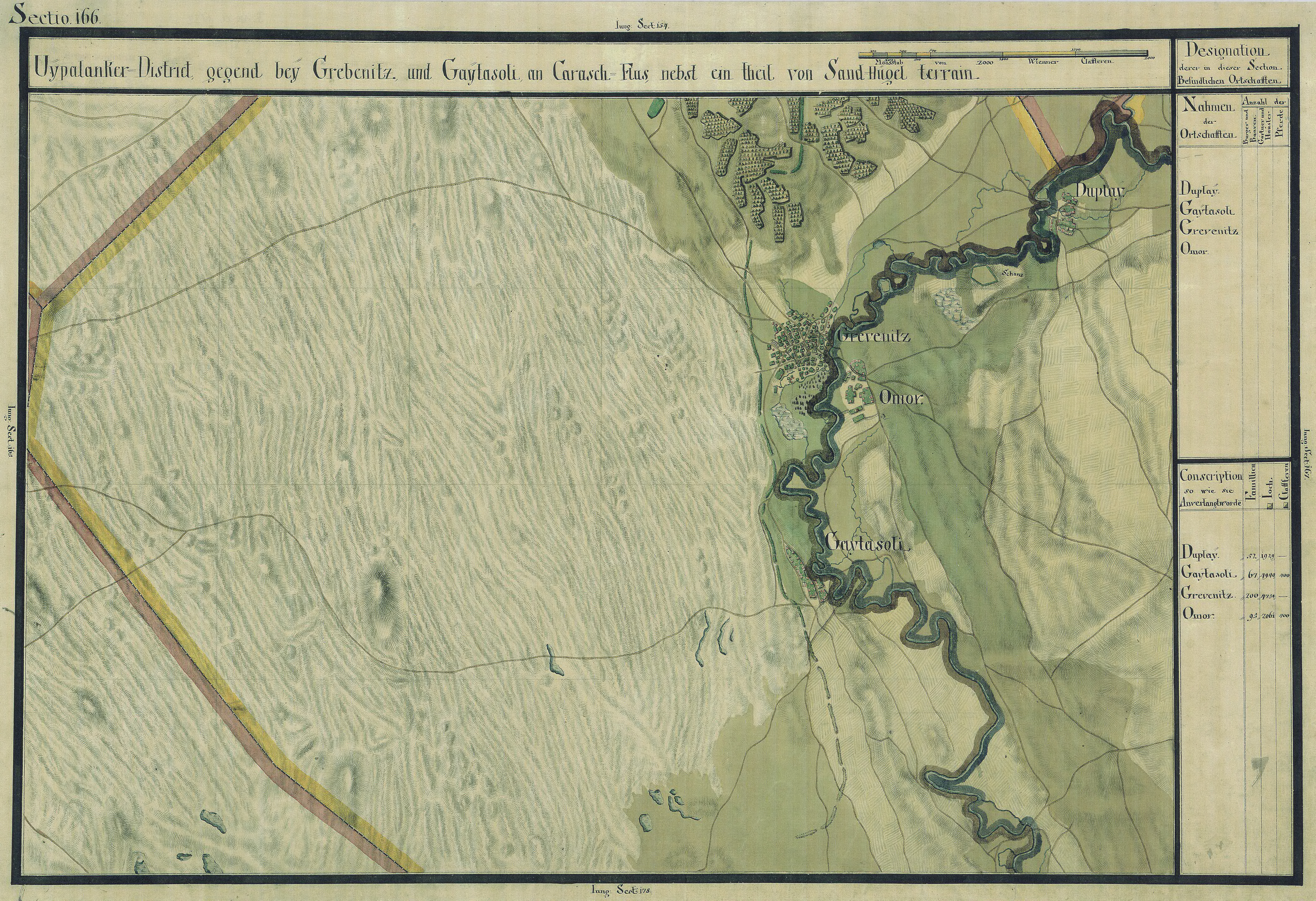 The Banat region in the cadastral maps: Josephinische Landesaufnahme, 1769-72. Josephinische Landaufnahme pg166